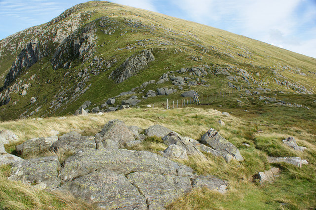 Bwlch y Tri Marchog